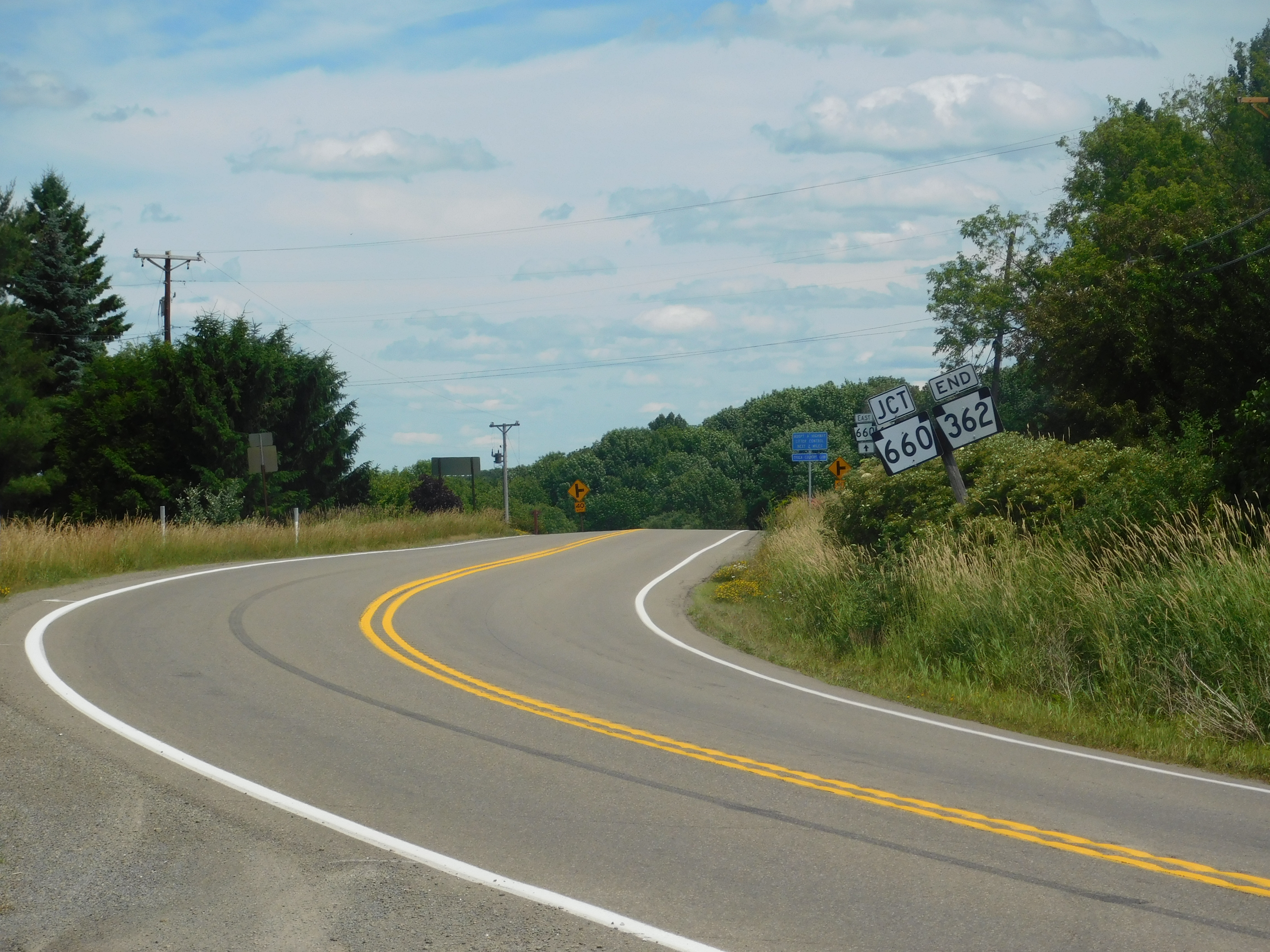 PA 362 approaching PA 660 near Leonard Harrison State Park.